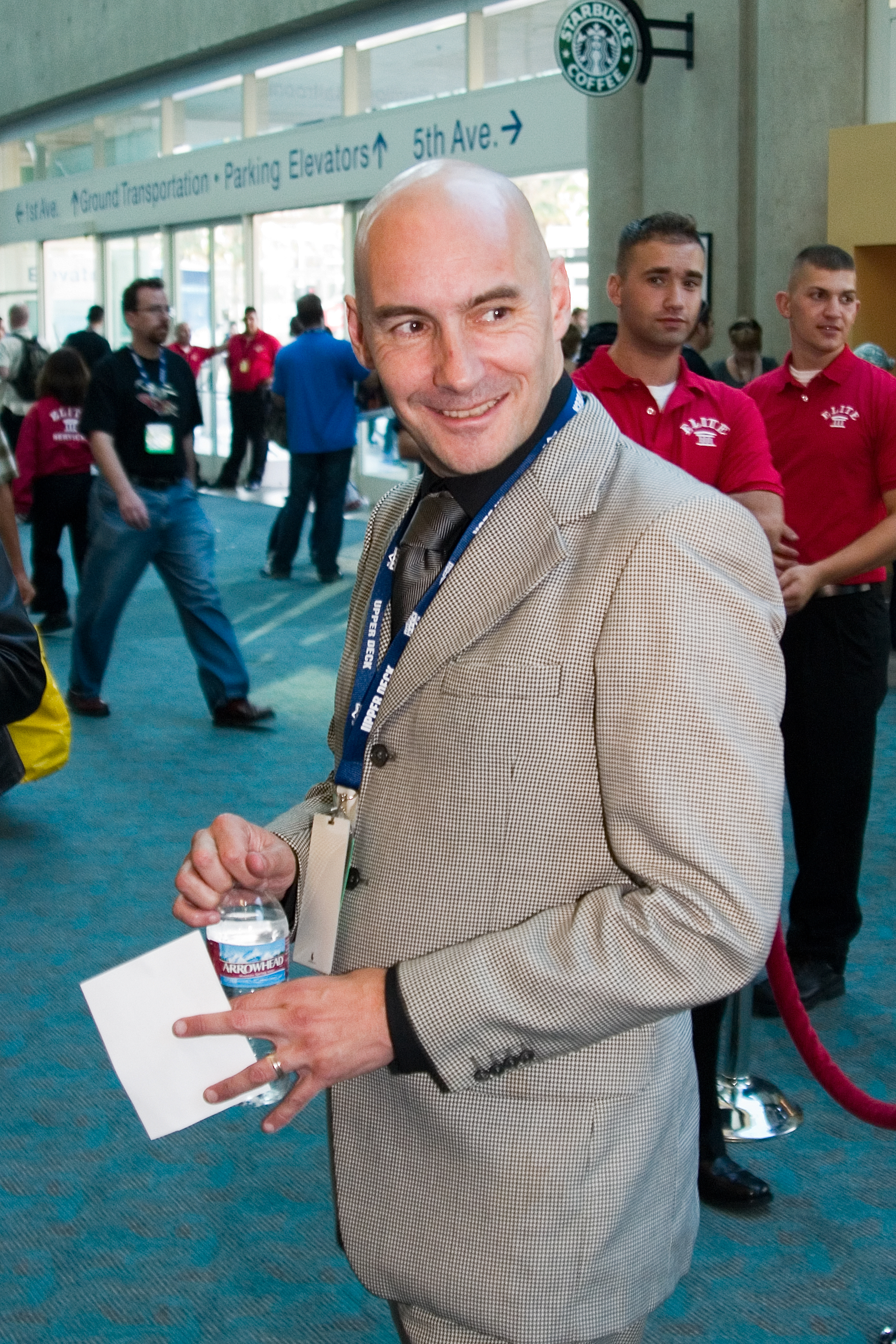 Scottish comic-book writer and playwright Grant Morrison at the first day of the 2008 San Diego Comic-Con International in San Diego, California, USA.